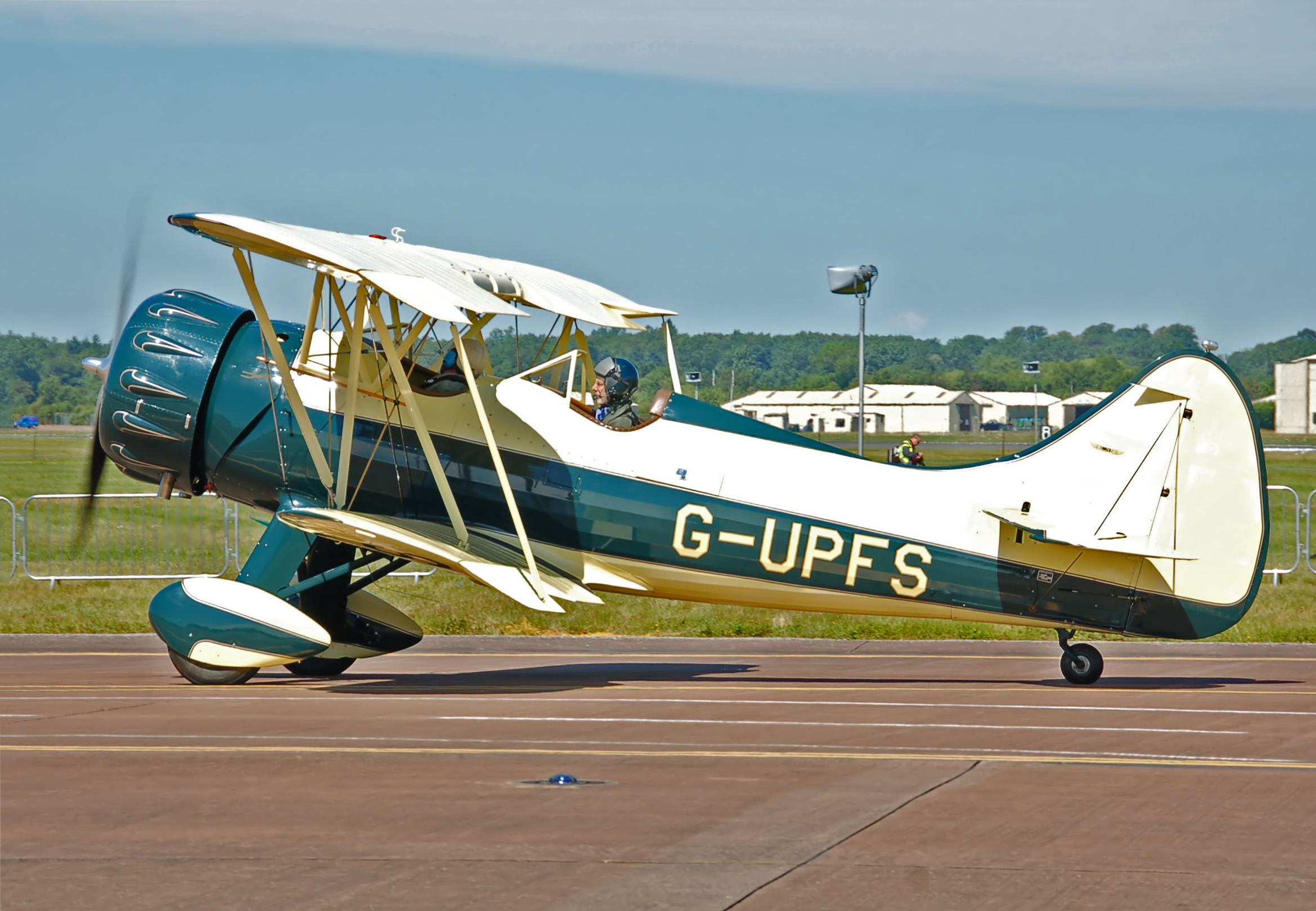 Waco Aircraft Company Waco UPF-7 (UK registration G-UPFS) arrives at the 2014 Royal International Air Tattoo, Fairford, England. Waco is an acronym standing for Weaver Aircraft Company of Ohio. The UPF-7 was a training variant with tandem seating, first flown in 1937 and used extensively by the US Civilian Pilot Training Program, which did much to build up the numbers of American pilots available for wartime duties. This example owned by Nigel Finlayson and David Peters, and based at Little Gransden in Cambridgeshire, England, was built in 1941.